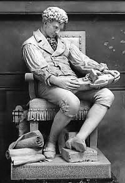 The marble statue of engineer and inventor Robert Fulton, by Howard Roberts, in Statuary Hall of the U.S. Capitol Building.